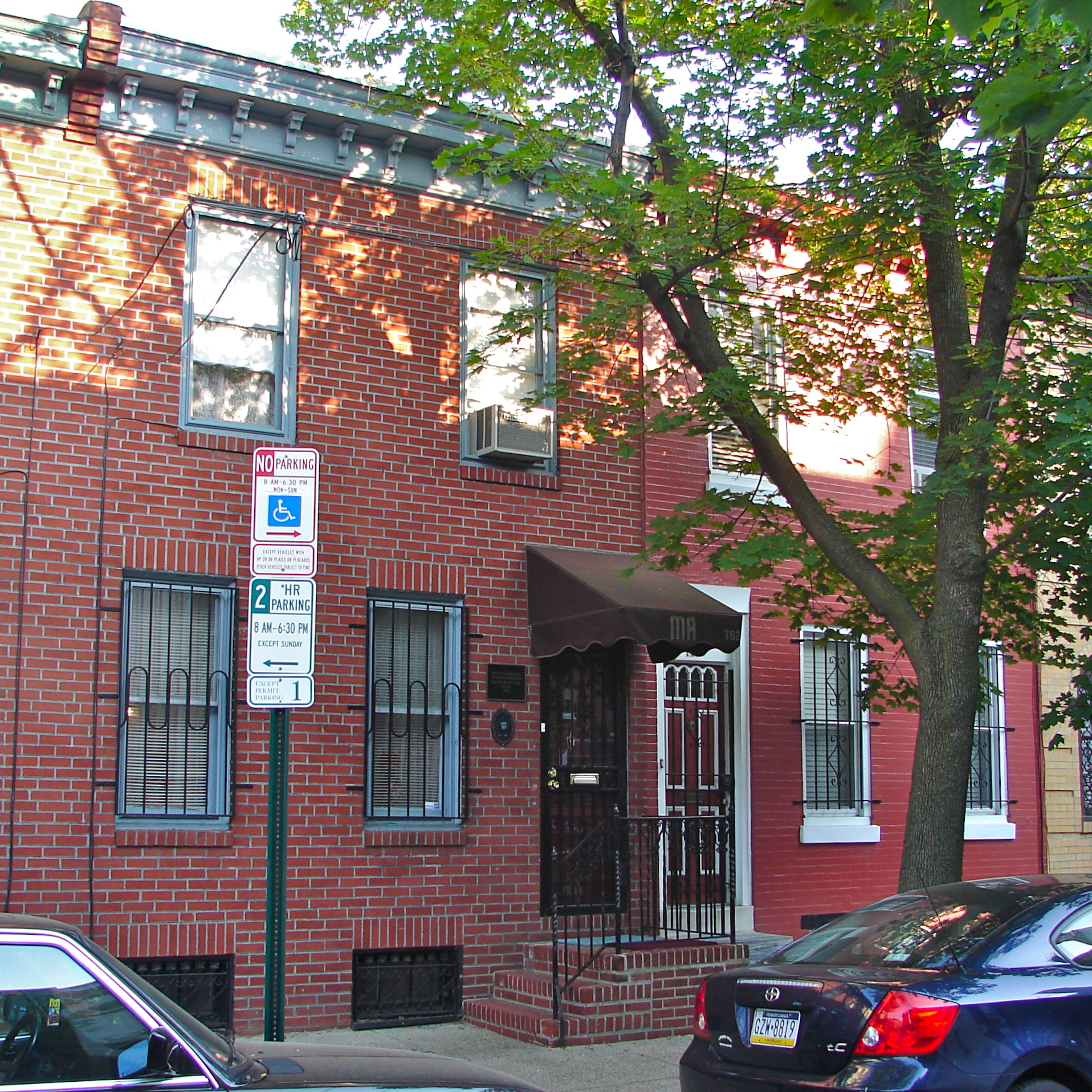 Marian Anderson House on the NRHP since April 14, 2011. At 762 South Martin Street, Southwest Center City, Philadelphia, Pennsylvania. Childhood home of opera singer and civil rights singer, Marian Anderson.